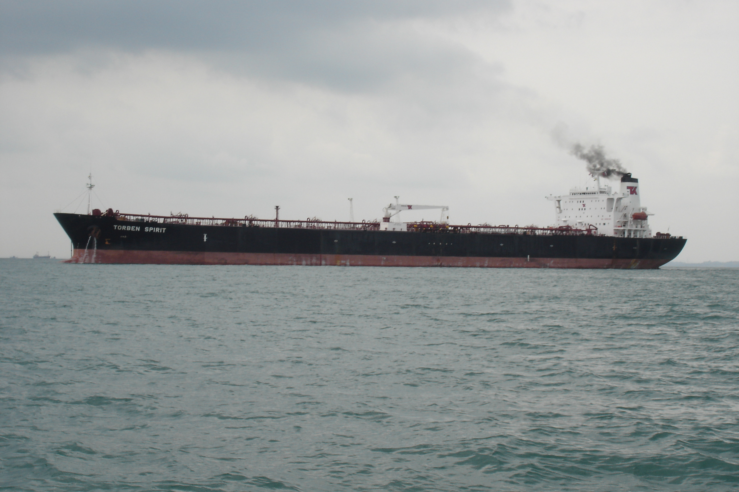 The Aframax petroleum tanker MT Torben Spirit, registered at the port of Nassau, The Bahamas. It was photographed in the outer anchorage at Singapore from a launch by a crew member joining the ship.